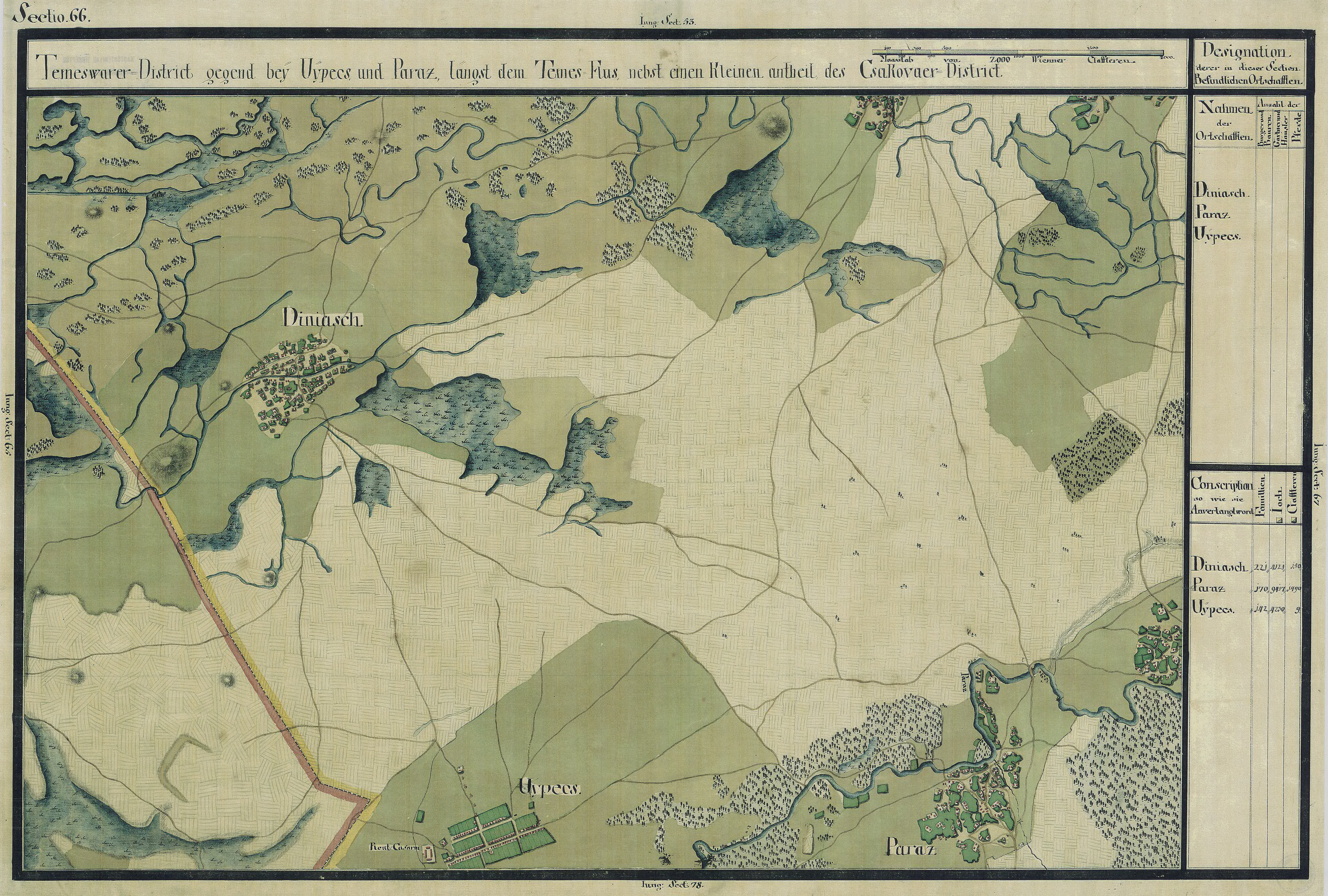 The Banat region in the cadastral maps: Josephinische Landesaufnahme, 1769-72. Josephinische Landaufnahme pg066